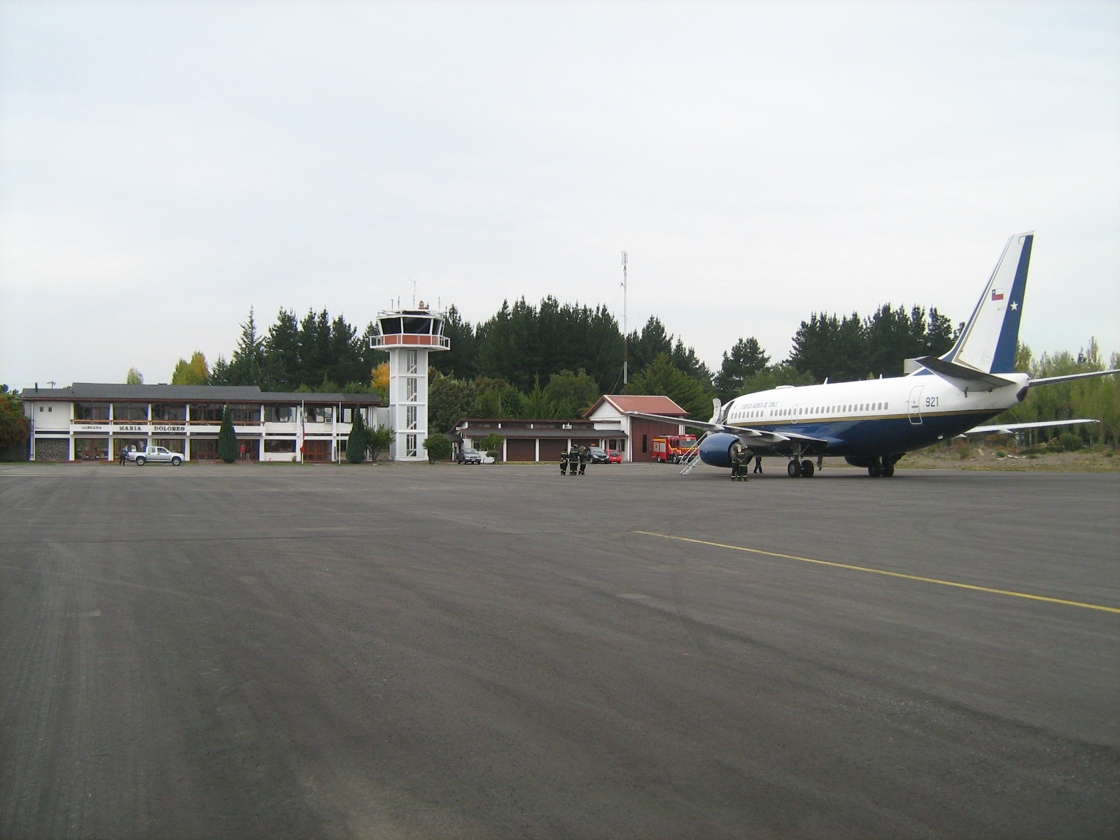 Loza aeropuerto maria dolores los angeles chile